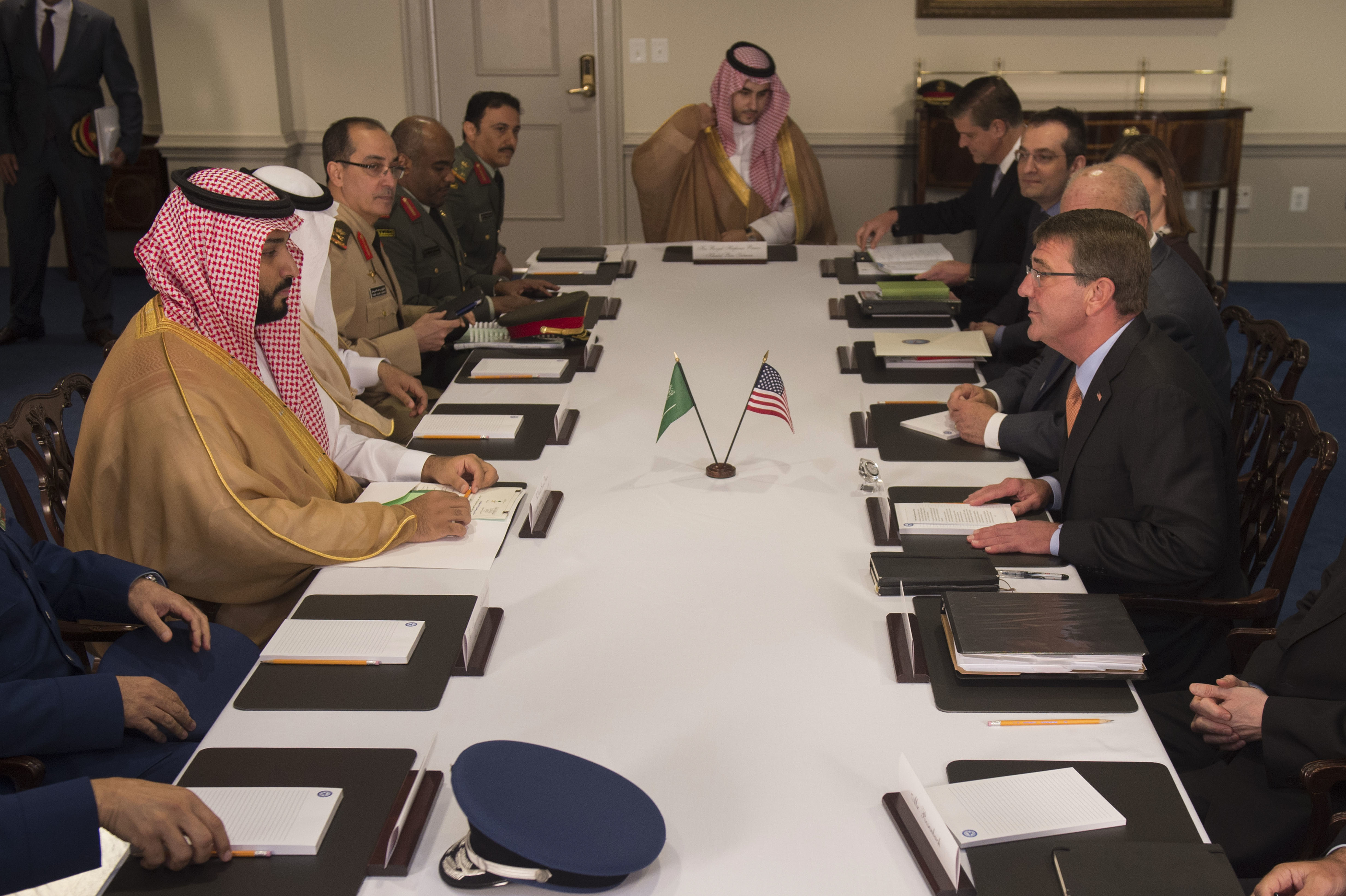 Secretary of Defense Ash Carter meets with Saudi Arabia's Deputy Crown Prince and Minister of Defense Mohammed bin Salman at the Pentagon June 16, 2016. The two leaders met to discuss matters of mutual importance. (DoD photo by Senior Master Sgt. Adrian Cadiz)(Released) Unit: Office of the Secretary of Defense Public Affairs